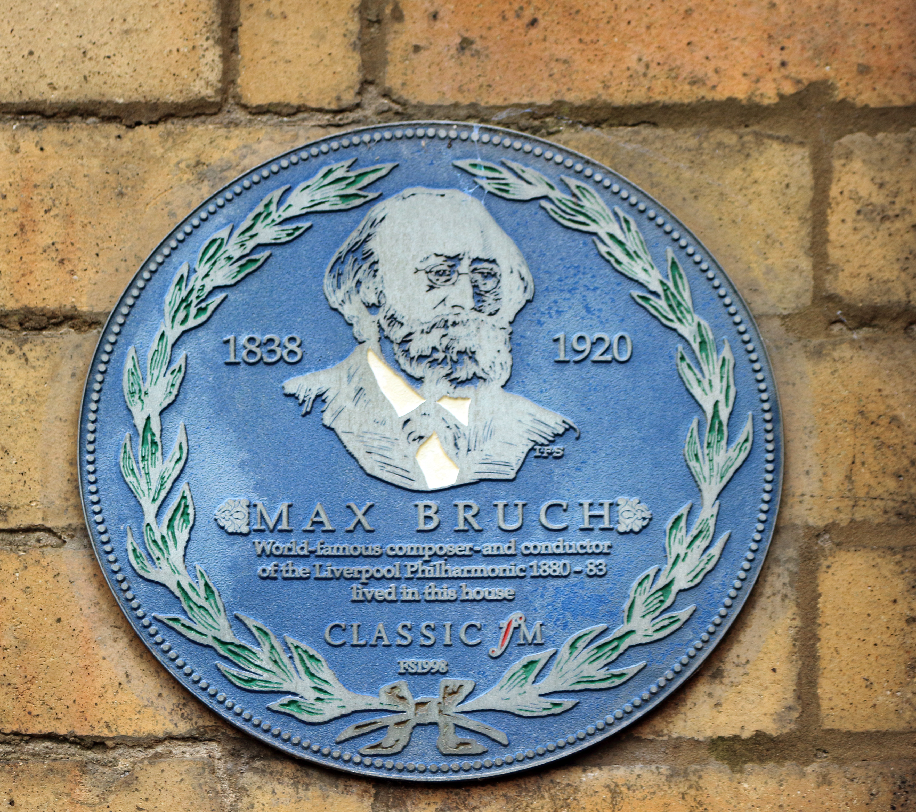 Plaque at 18 Brompton Avenue, Liverpool 17, commemorating the residence there of Max Bruch 1880 - 83 when he was conductor of the Liverpool Philharmonic.